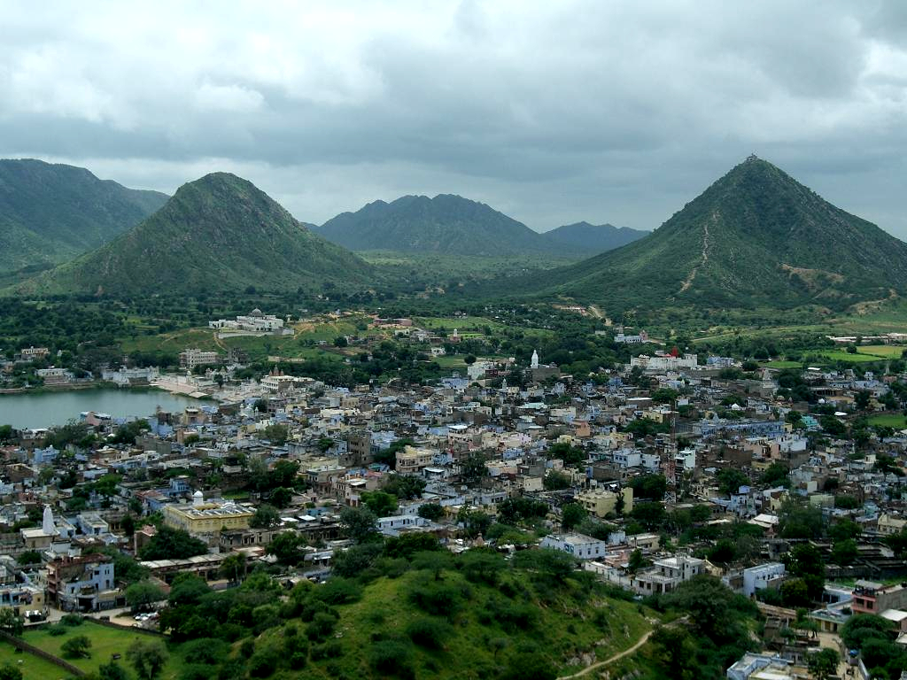 Hills around Pushkar, turn green during the Monsoon.